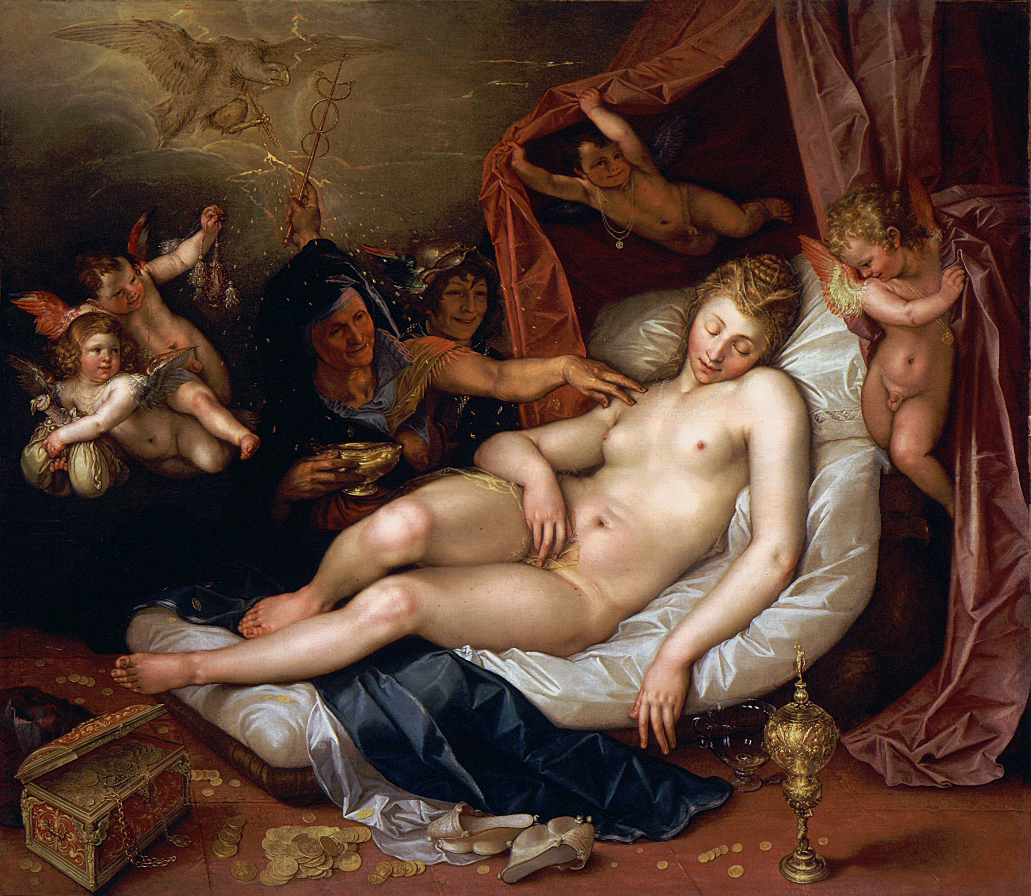 Holland, 1603 Paintings Oil on canvas Gift of The Ahmanson Foundation (M.84.191) European Painting Currently on public view: Ahmanson Building, floor 3